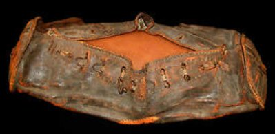 National Postal Museum: This style mailbag is known as a 'portmanteau'. This portmanteau is part of a transfer of a large number of objects from the Post Office Department to the Smithsonian Institution National Postal Museum. Portmanteaux were used to carry letters and newspapers on stagecoaches during the nineteenth century. The letters and newspapers would be divided in separate linen or canvas bags inside the portmanteau. The bag is marked from the Post Office Department "Return Jonathan Meigs, Jr. (1764-1824)."